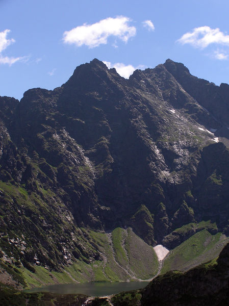 Tatra Mountains in Poland